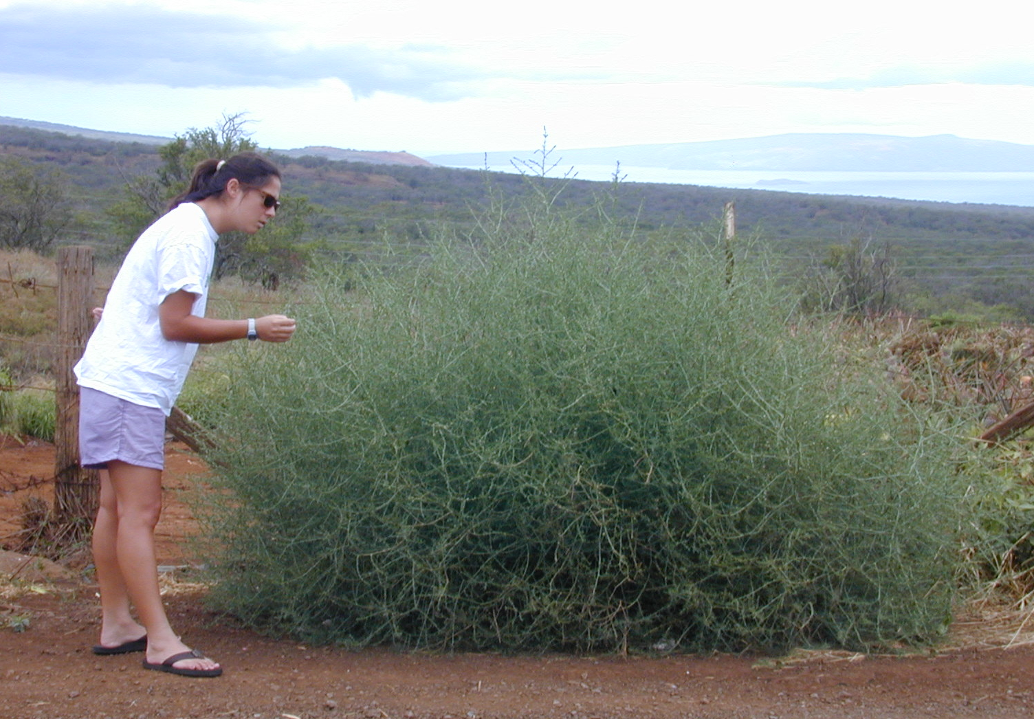 A trimmed and slightly edited version of the File:Starr 020802-0005 Salsola tragus.jpg by Forest & Kim Starr